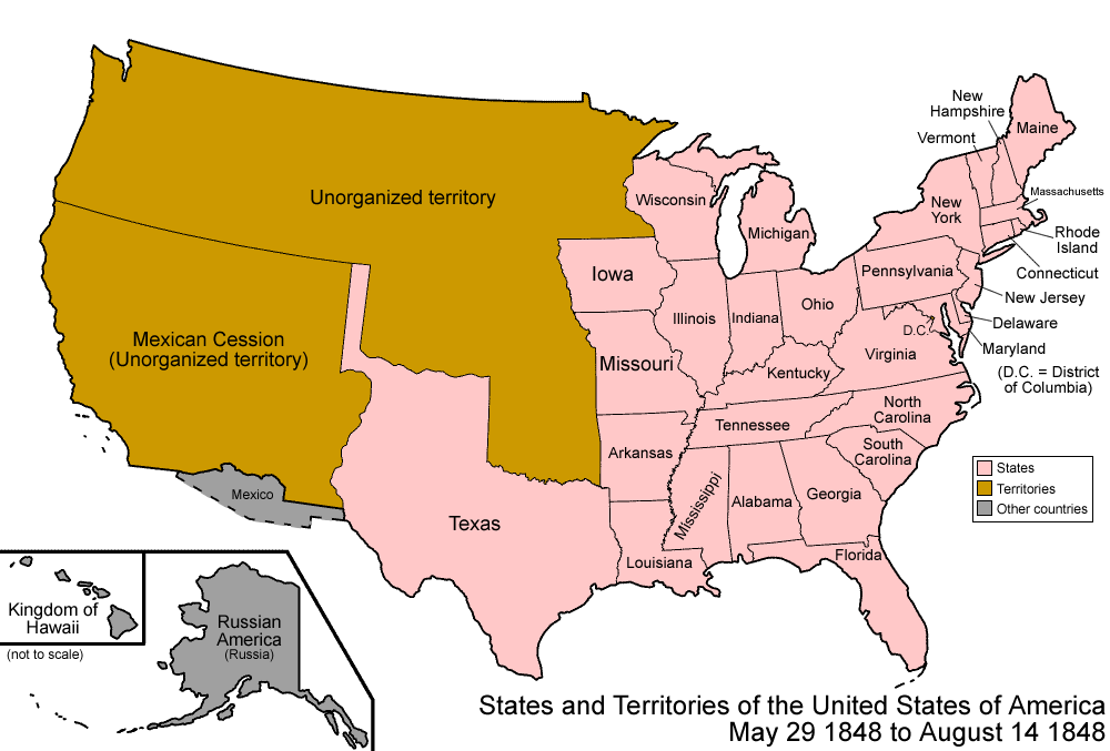 Map of the states and territories of the United States as it was from May 1848 to August 1848. On May 29 1848, most of Wisconsin Territory was admitted as the state of Wisconsin, and the remainer became unorganized. On August 14 1848, Oregon Territory was organized.